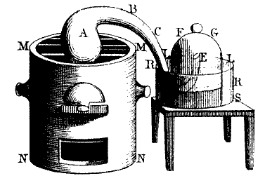 Hand sketch engraving made by madamme Lavoisier in the 18th century featured in "Traité élémentaire de chimie" retrieved from Lavoisier performed his classic twelve-day experiment in 1779 which has become famous in history. First, Lavoisier heated pure mercury in a swan-necked retort over a charcoal furnace for twelve days. A red oxide of mercury was formed on the surface of the mercury in the retort. When no more red powder was formed, Lavoisier noticed that about one-fifth of the air had been used up and that the remaining gas did not support life or burning. Lavoisier called this latter gas azote. (Greek 'a' and ' zoe' = without life). He removed the red oxide of mercury carefully and heated it in a similar retort. He obtained exactly the same volume of gas as disappeared in the last experiment. He found that the gas caused flames to burn brilliantly, and small animals were active in it as Joseph Priestley had noticed in his experiment. Finally, on mixing the two types of gas, i.e. the gas left in the first experiment, and that given out in the second experiment, he got a mixture similar to air in all respects. In his experiments Lavoisier analysed air into two constituents: the one which supports life and combustion, and is one-fifth by volume of air he called oxygen (Greek, oxus=acid, gen=beget), the other four-fifths which does not he called azote. This latter gas is now called nitrogen. From the two gases he synthesised something that has the characteristics of air.